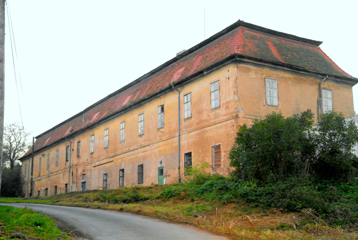 Chateau Budeničky, Budeničky 1, Budeničky (Šlapanice). The eastern wing.